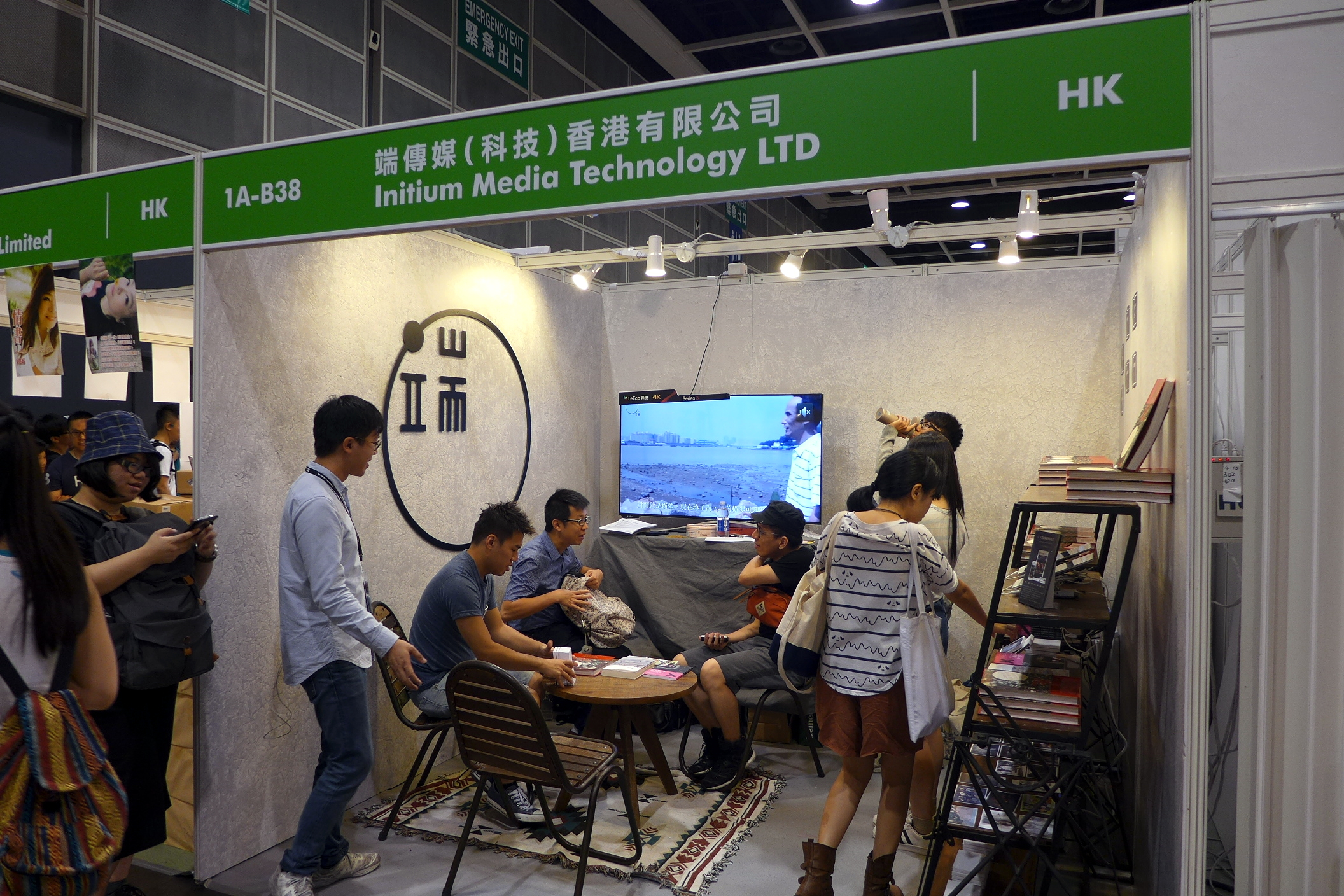 Initium Media Technology Ltd in HK Book Fair 2016